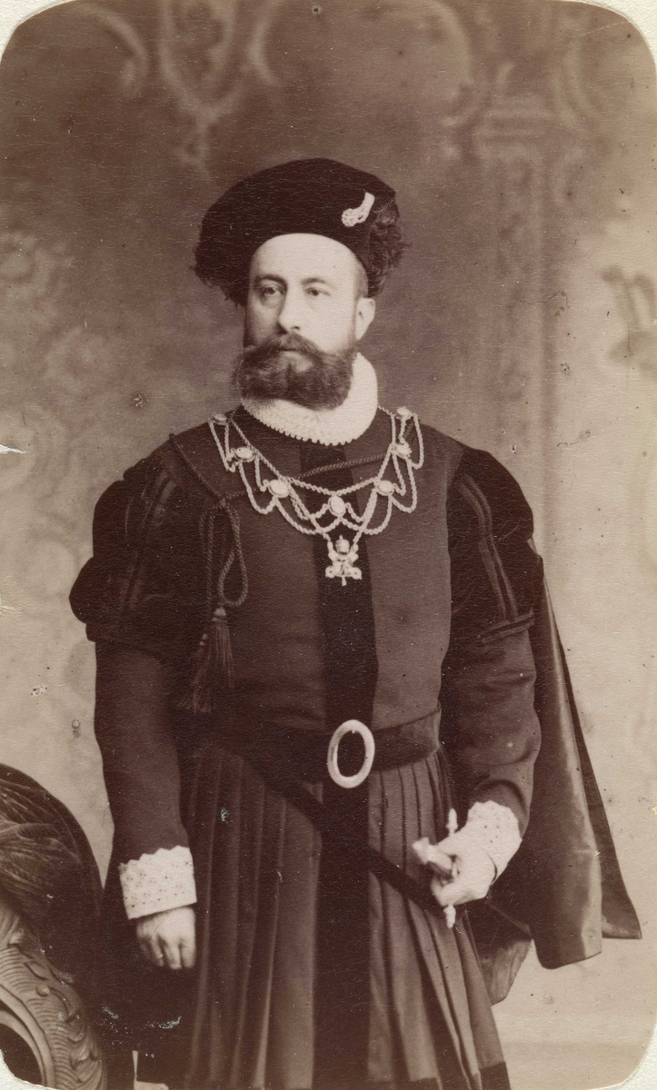 Depicted person: Wilhelm Wedel-Jarlsberg – Norwegian nobleman